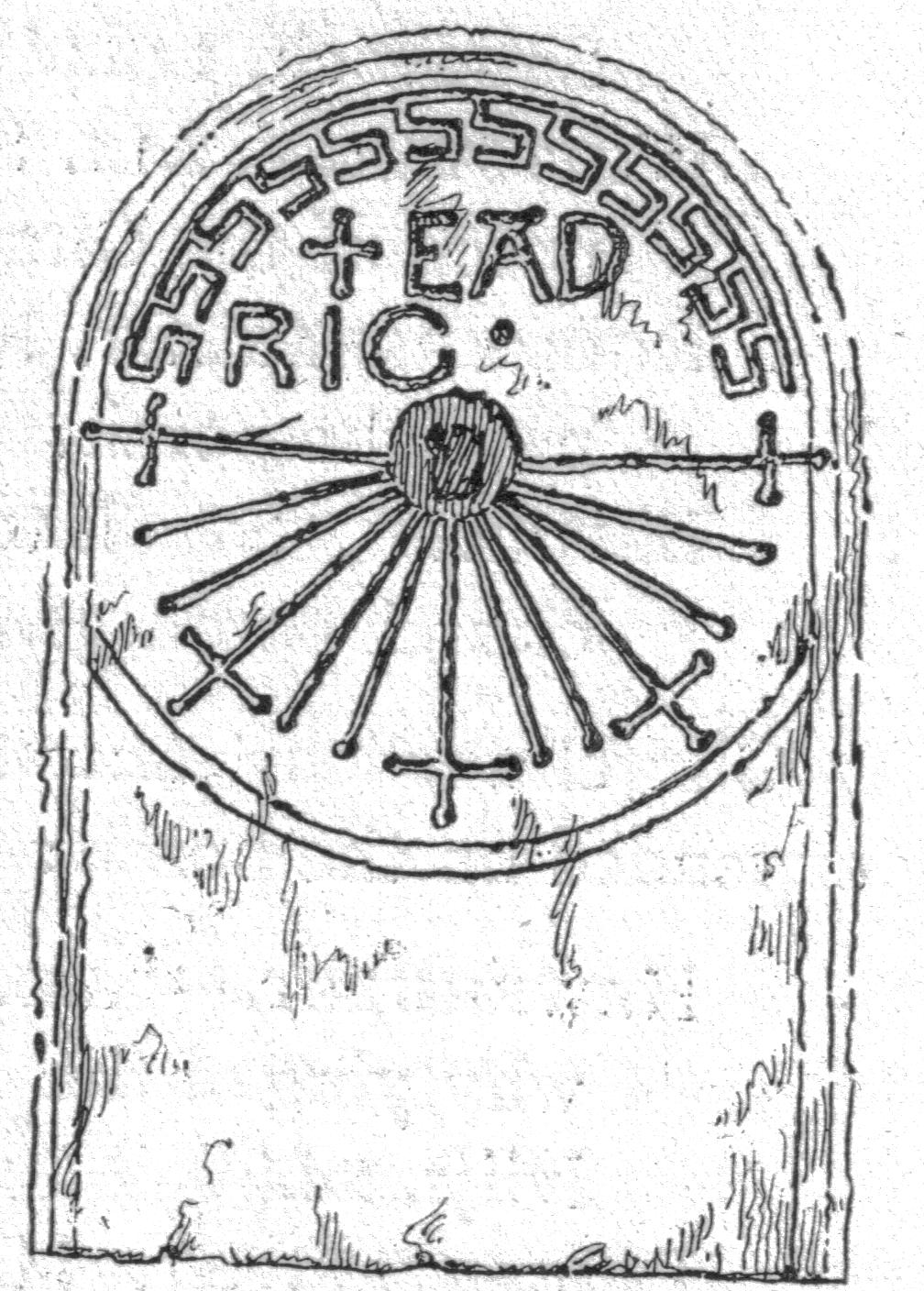 Diagram of the Mass dial at St Andrew's parish church, Bishopstone, East Sussex